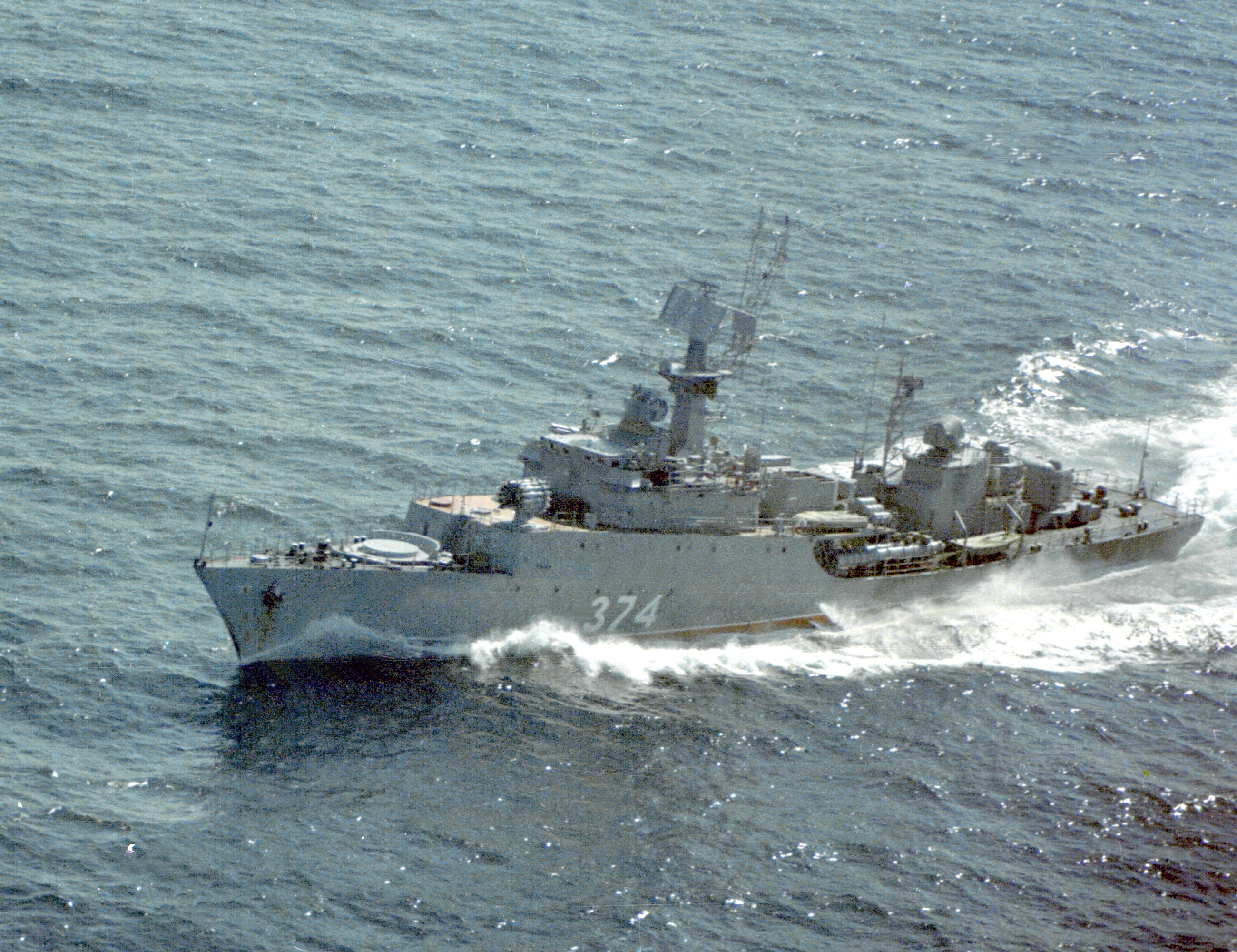 A port view of the Soviet project 1124-M (NATO code Grisha V class) small ASW ship MPK-89 underway.